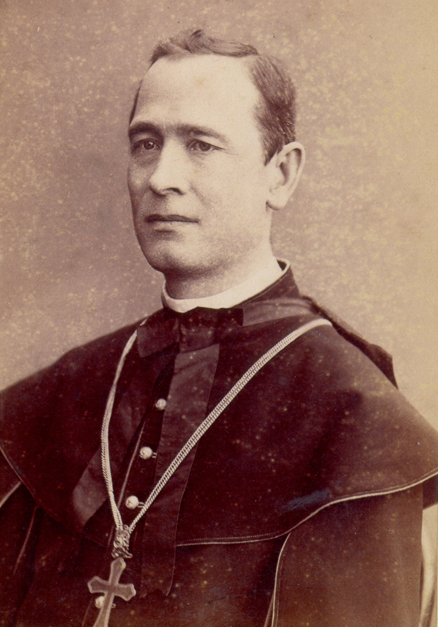 Jakob Missia (1838-1902), slovene priest, cardinal and philosopher